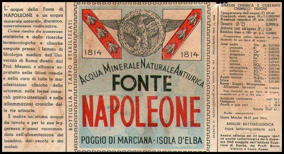 Elba island